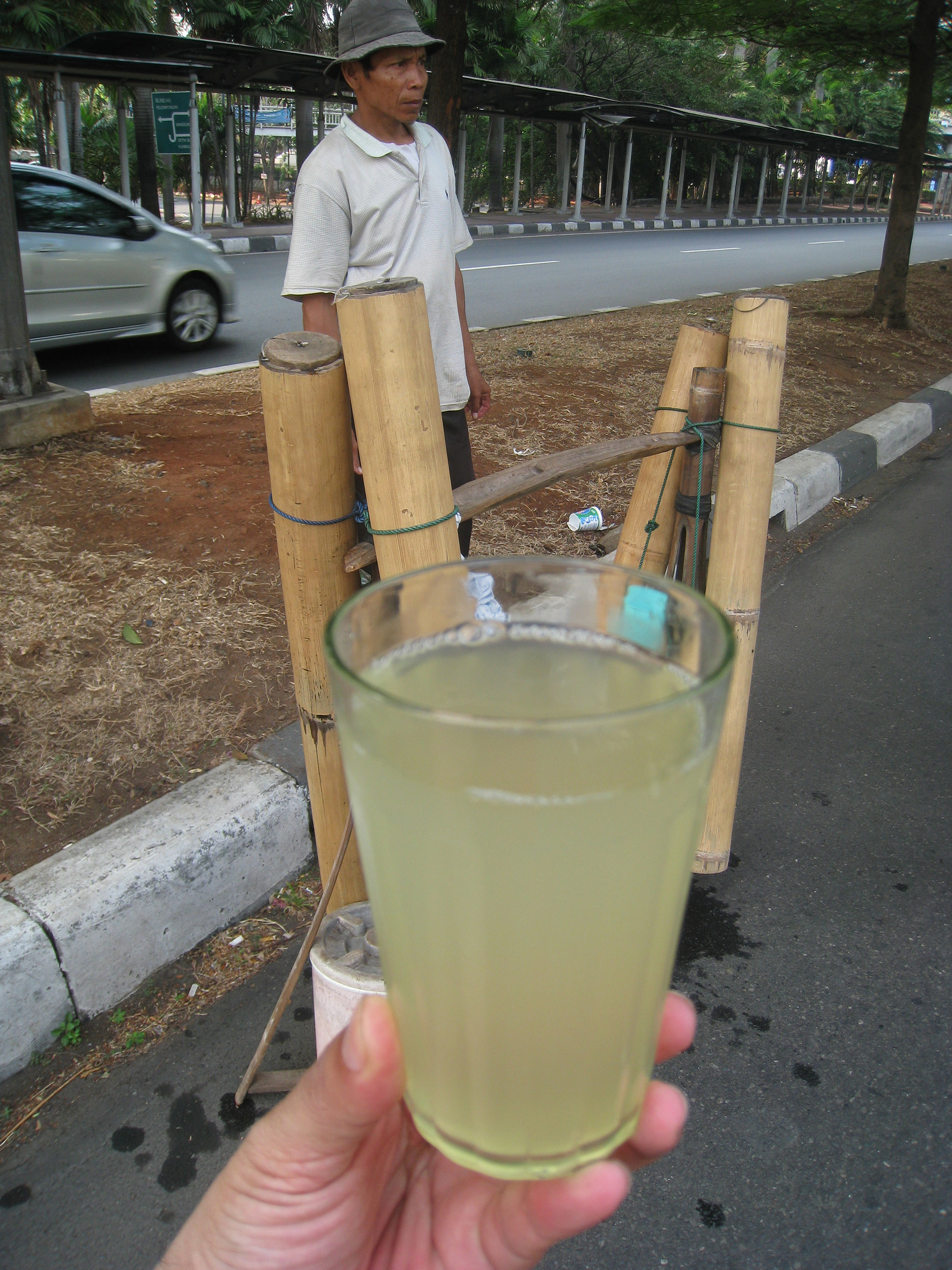 Lahang, a Sundanese name for sugar palm sap drink. A sweet drink acquired from Aren or Kawung flower sap (Arenga pinnata). The street vendor uses bamboo tube to sell the drink, in main avenue in Jakarta, Indonesia.